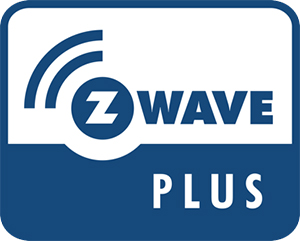 Logo of Z-Wave Plus certified product